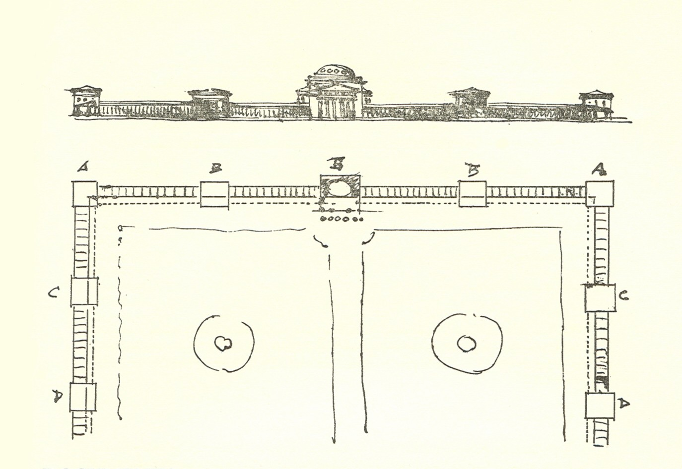 Benjamin Latrobe's suggestion of a round building as central edifice of the University of Virginia, in a letter to Thomas Jefferson from 24 July 1817